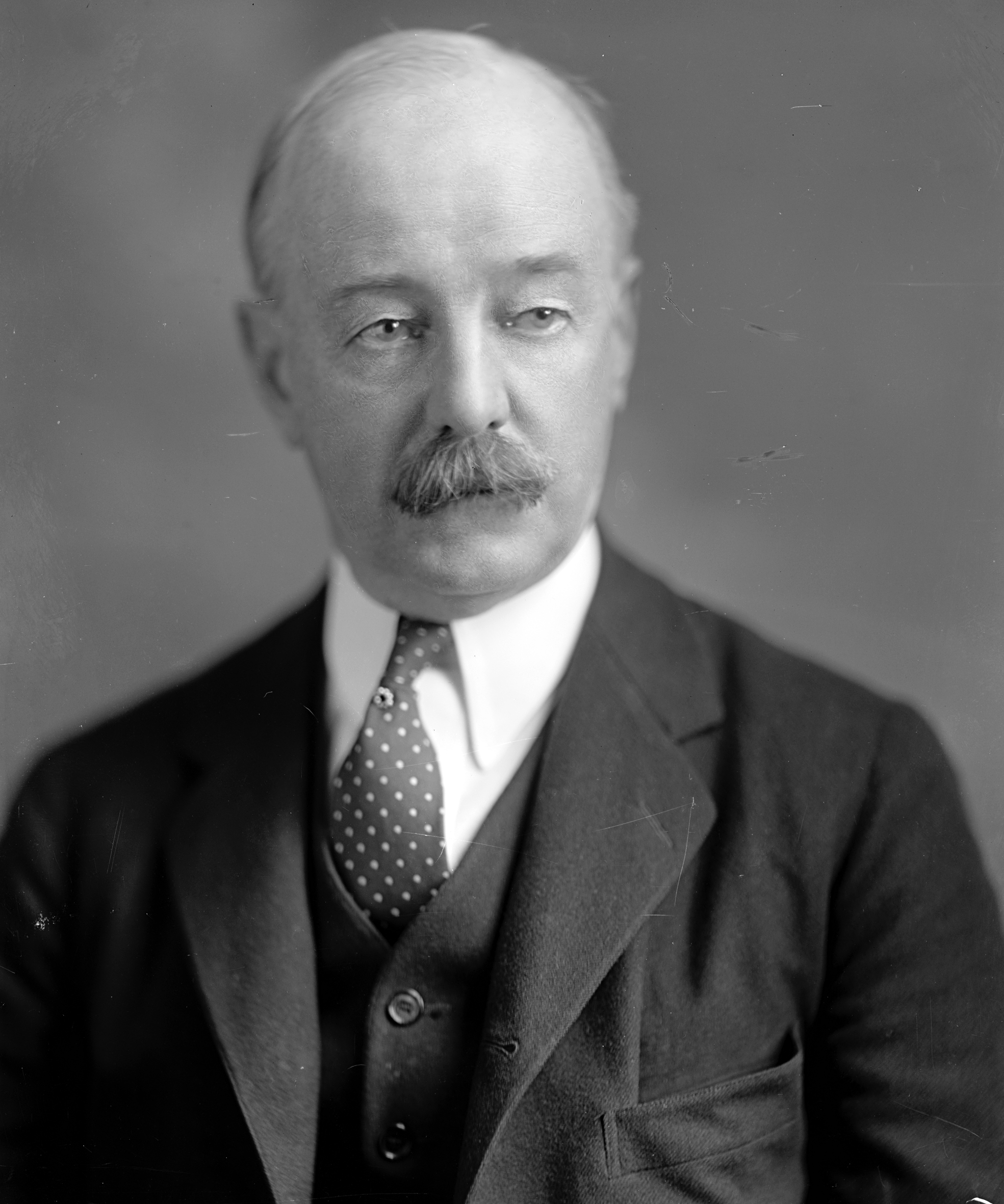 Walter I. McCoy, US Representative from New Jersey